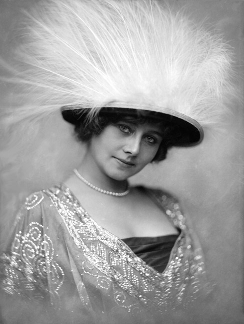 Actress Anna Sedláčková (1887-1967)